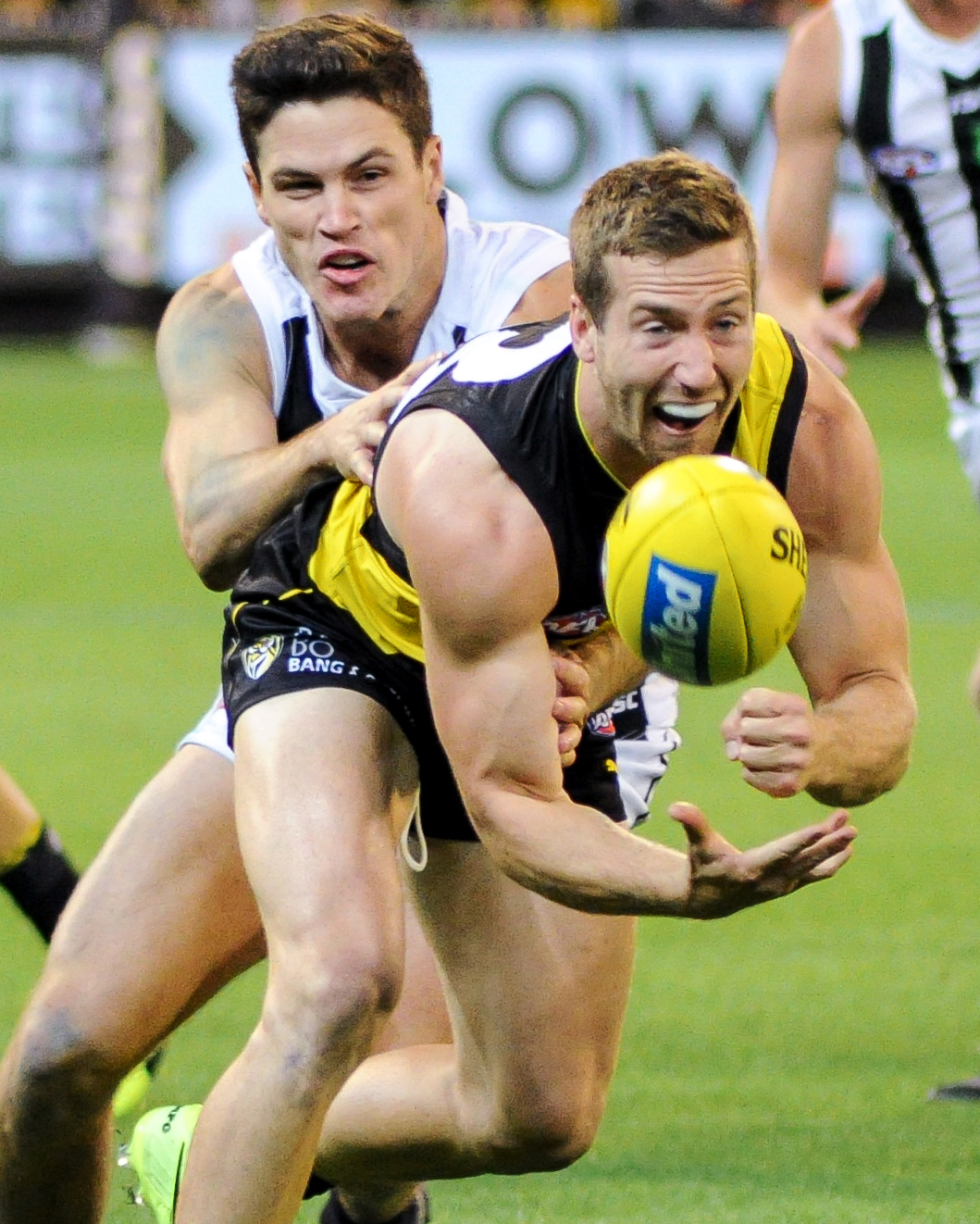 Kane Lambert handballing in front of Jack Crisp during the AFL round two match between Richmond and Collingwood on 30 March 2017 at the Melbourne Cricket Ground in Melbourne, Victoria.